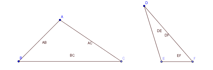 Triangles ABC i DEF.